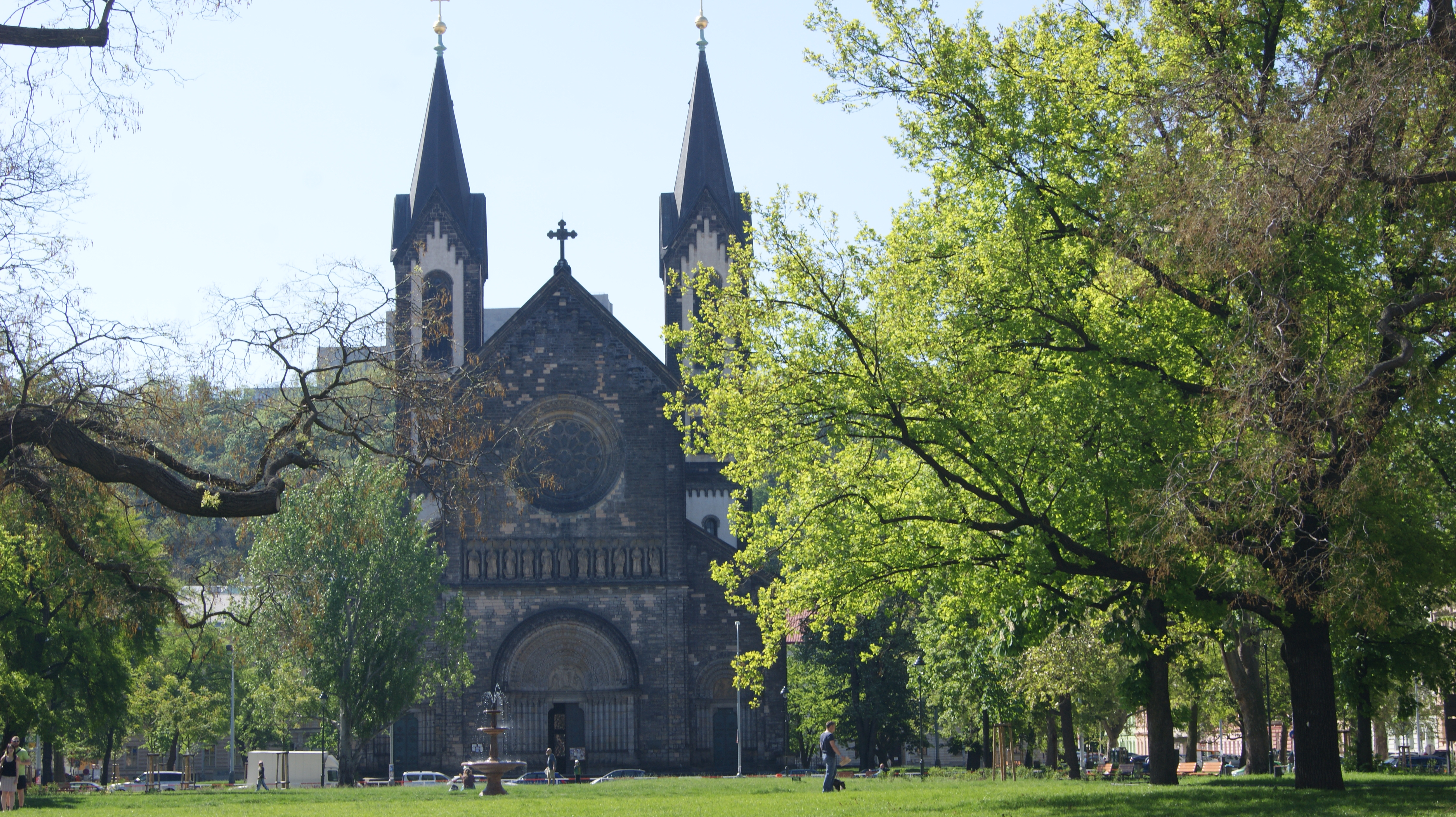 Church of Saints Cyril and Methodius (Karlín) in Prague (Czech Republic).